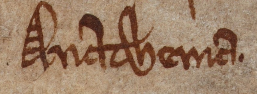 Anathema; from the King Alfred’s Old English Version of Augustine’s Soliloquies. (see transcript at the Website of the Faculty of Creative and Critical Studies, University of British Columbia)